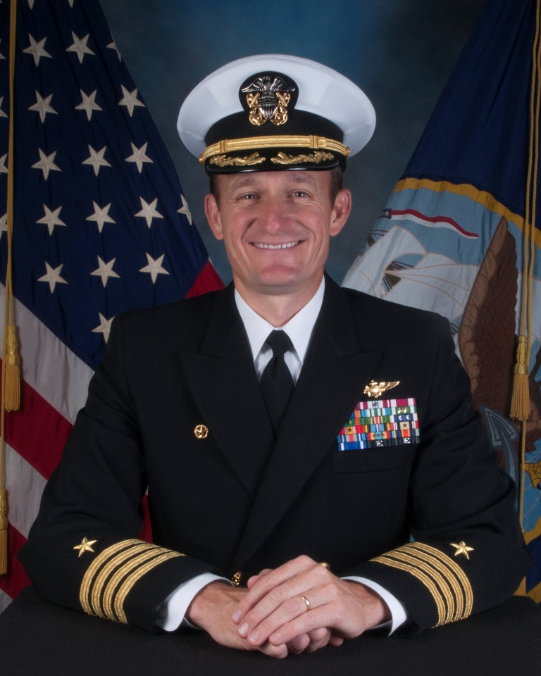 Capt. Brett E. Crozier